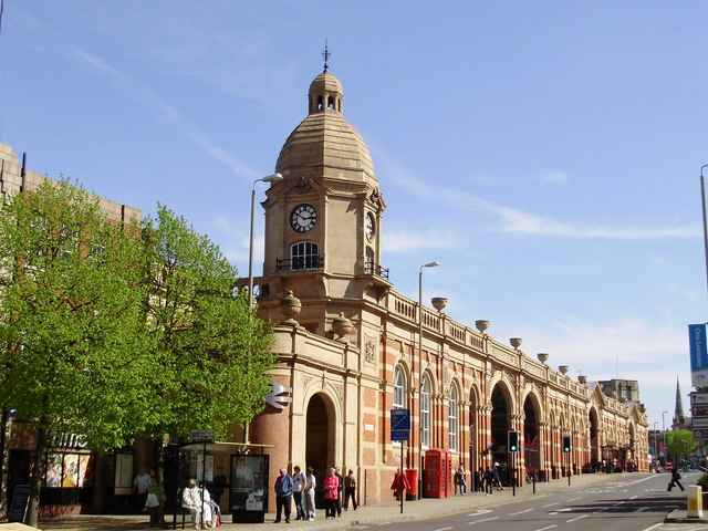 Leicester Rail Station